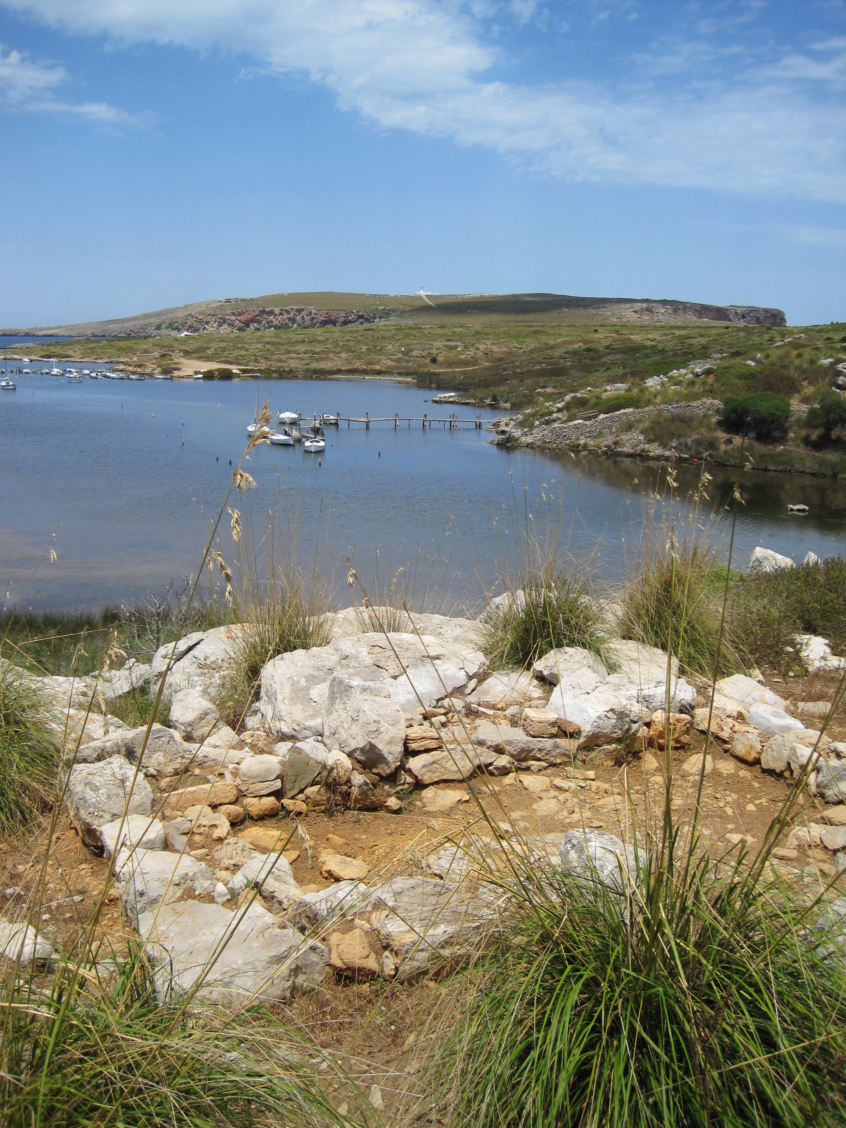 Partial view of the eastern side of the port of Sanitja